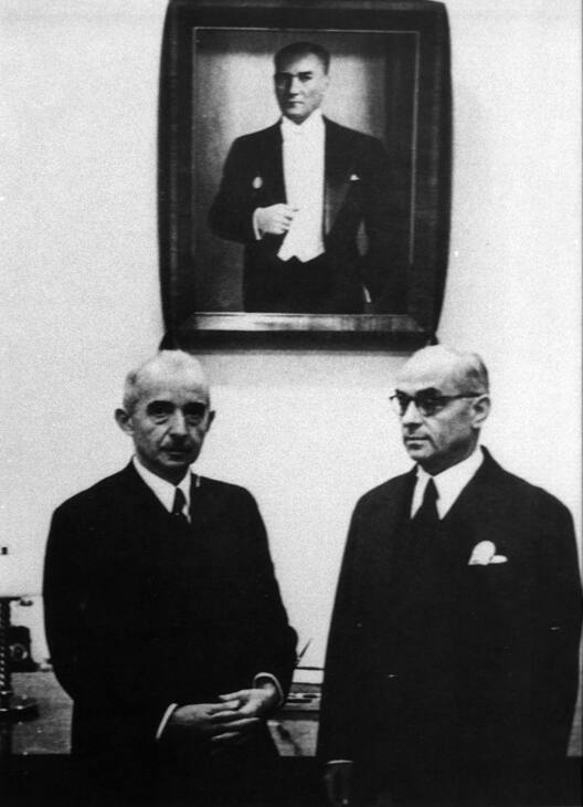 President İsmet İnönü, (former president Mustafa Kemal Atatürk), primer Celâl Bayar in 1938.